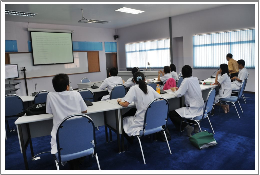 Tele - Medicine Study Room